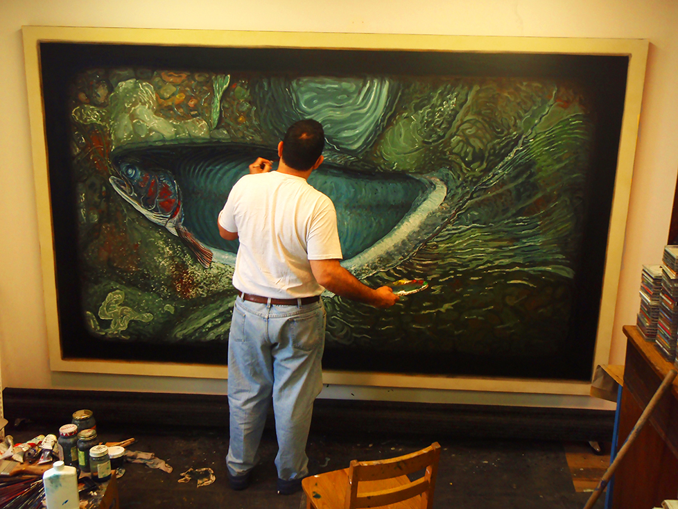 Alberto Rey working on a painting for his Aesthetics of Death series in 2014. Taken with permission from the artist.